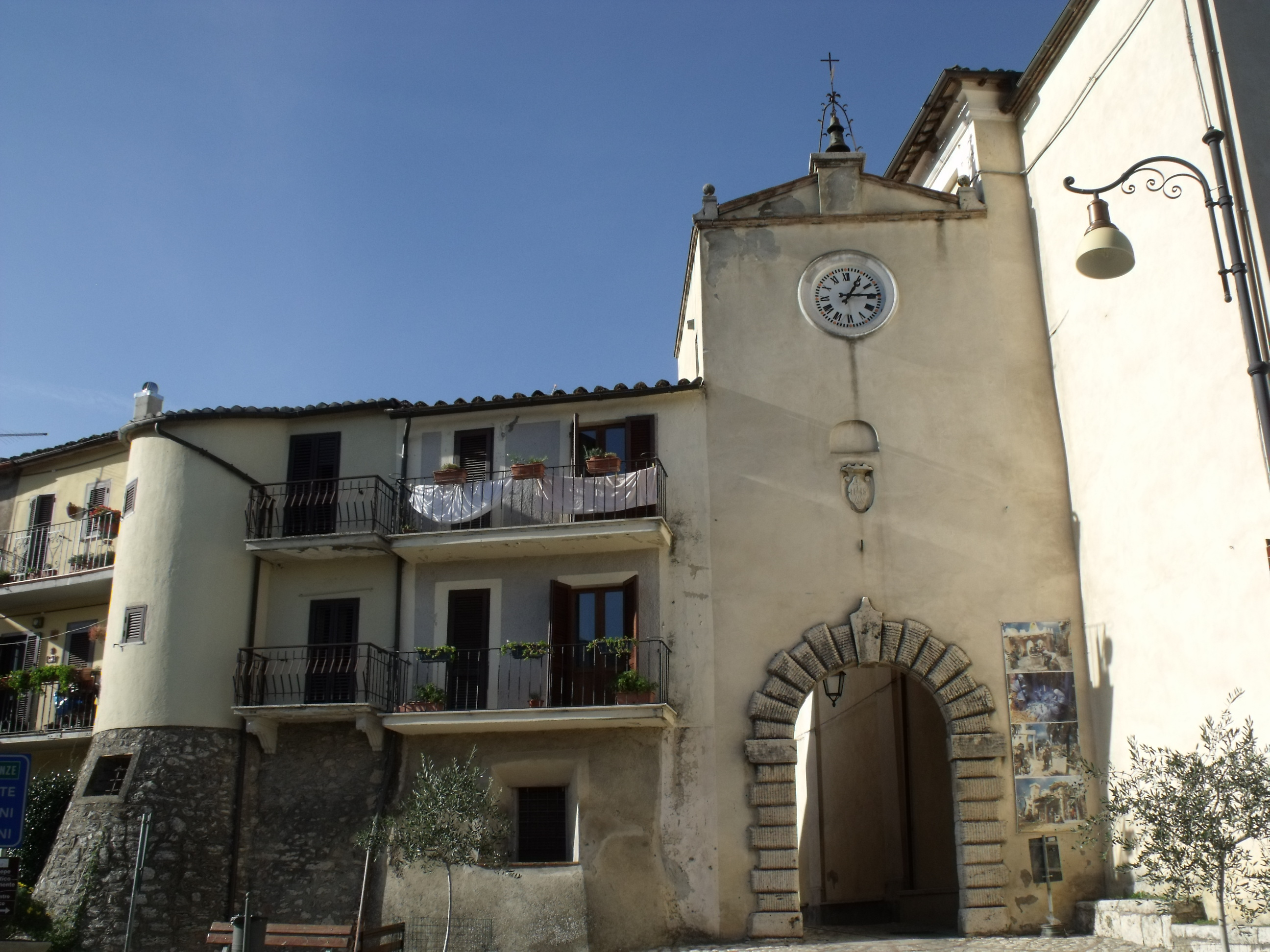 City Gate Porta Civica in Penna in Teverina, Province of Terni, Umbria, Italy